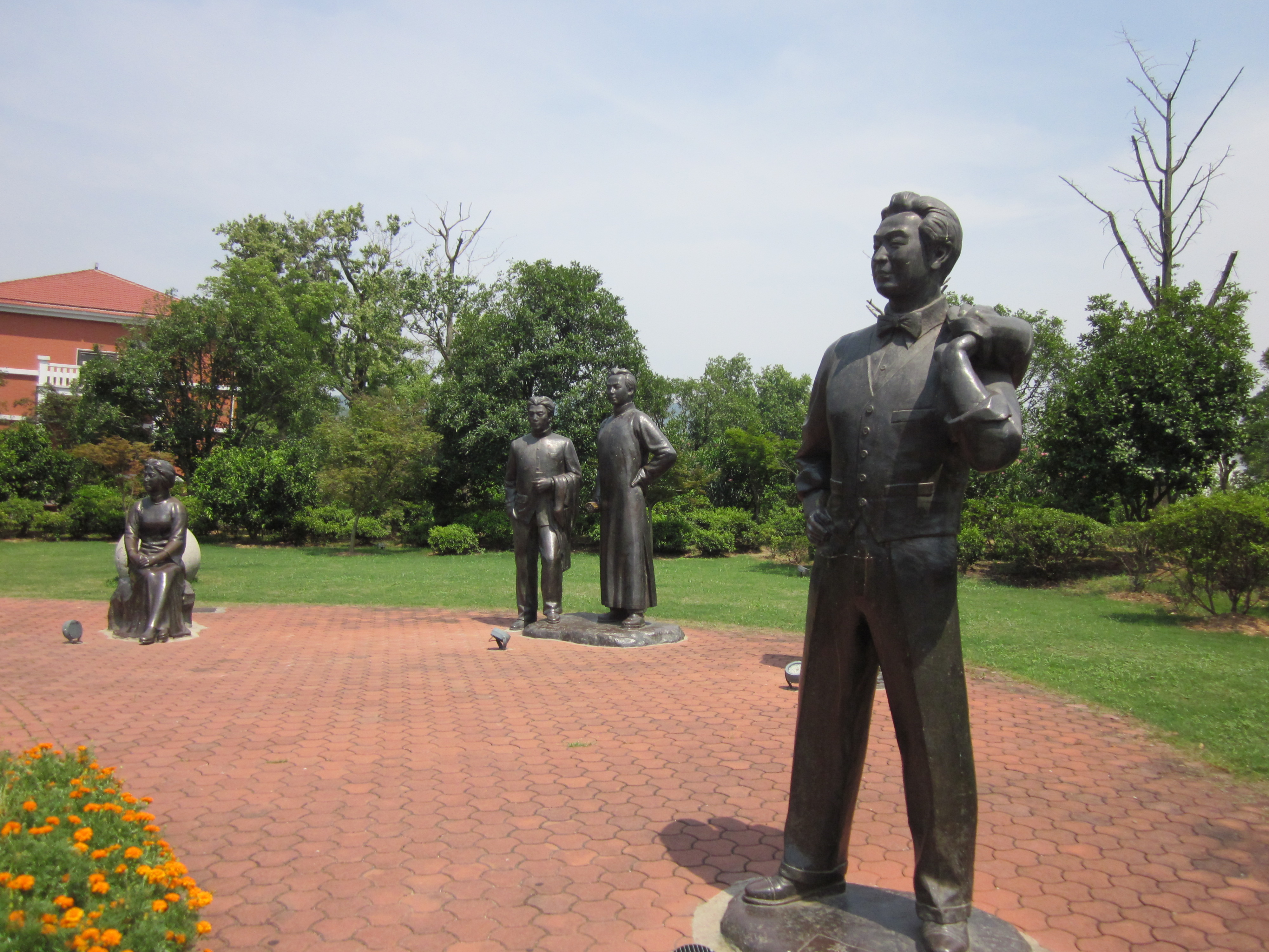 Orange continent head,Changsha famous sights. Bronze statues in the pictures are MAO Zedong, Cai Hesen, Xiao San, Xiang Jingyu, He Shuheng.